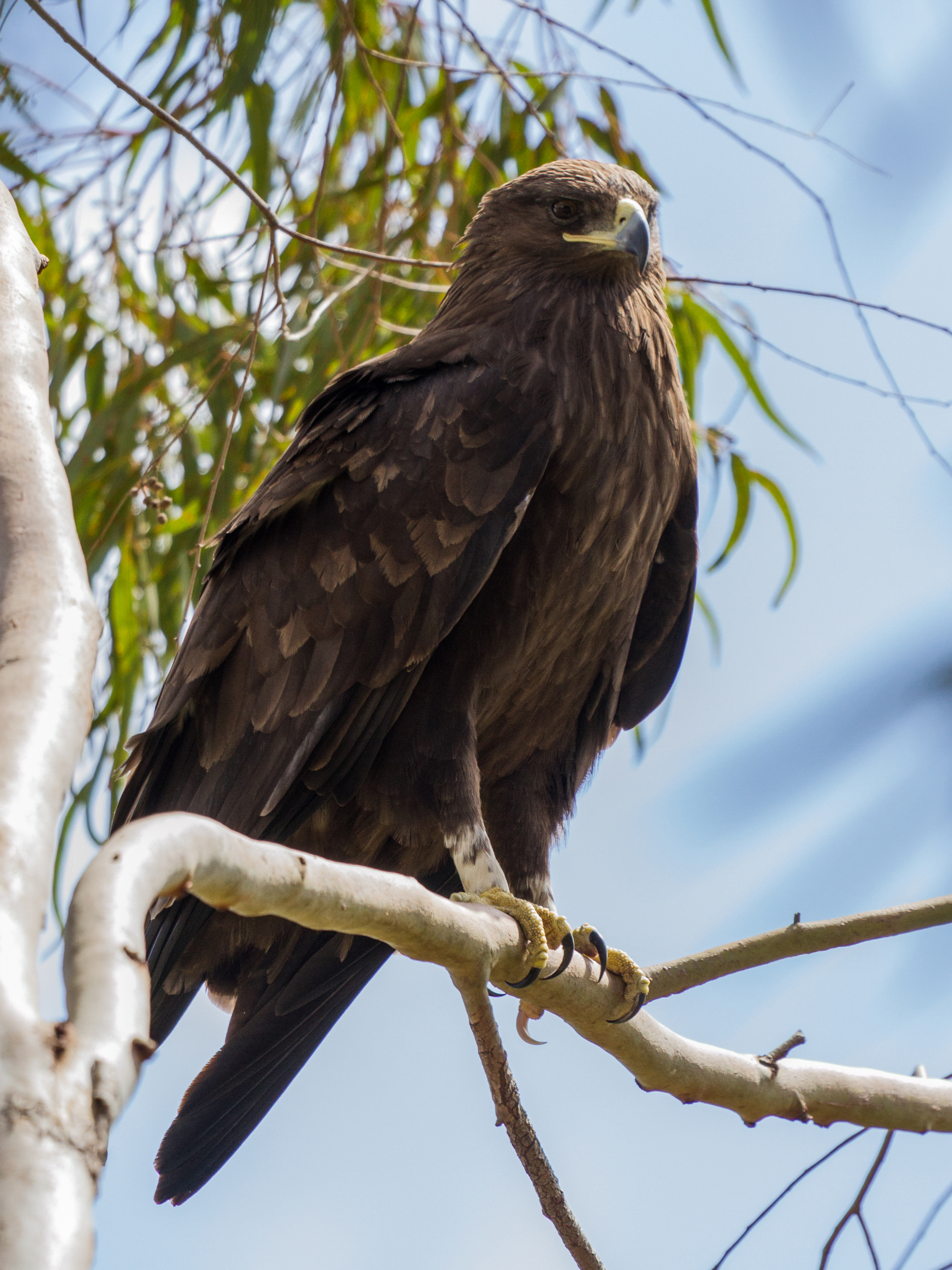 Greater spotted eagle (Aquila clanga) wintering at Israel